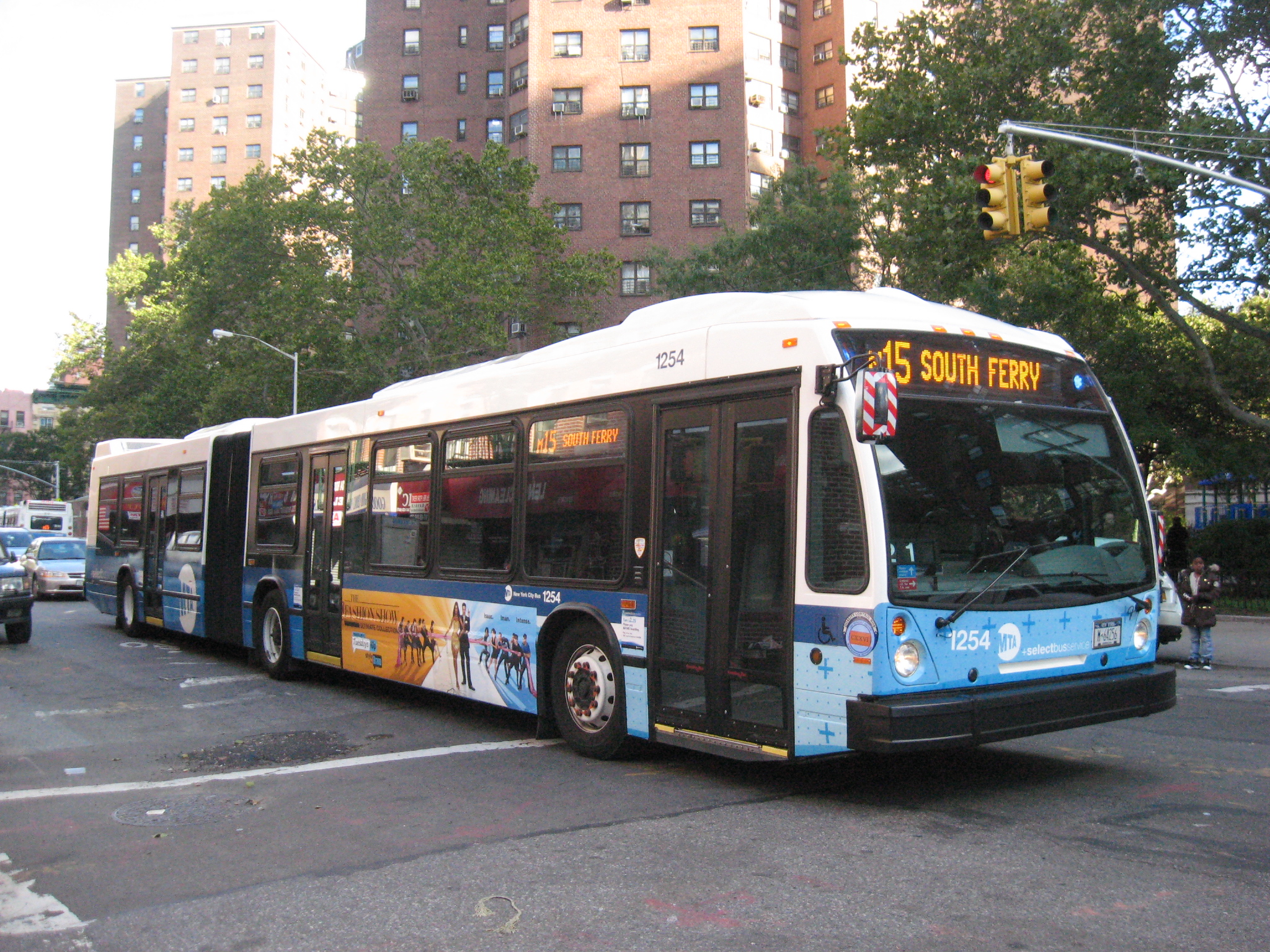 An M15 SBS bus passes Madison and James Streets, bound for South Ferry.